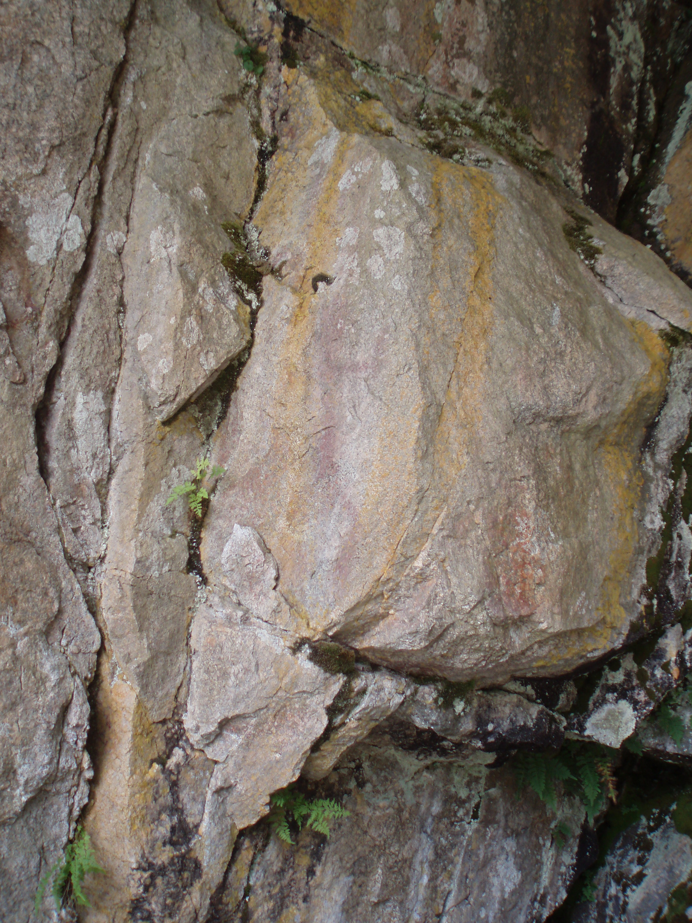 Cave painting in Ukonvuori (Kolovesi national park, Finland)